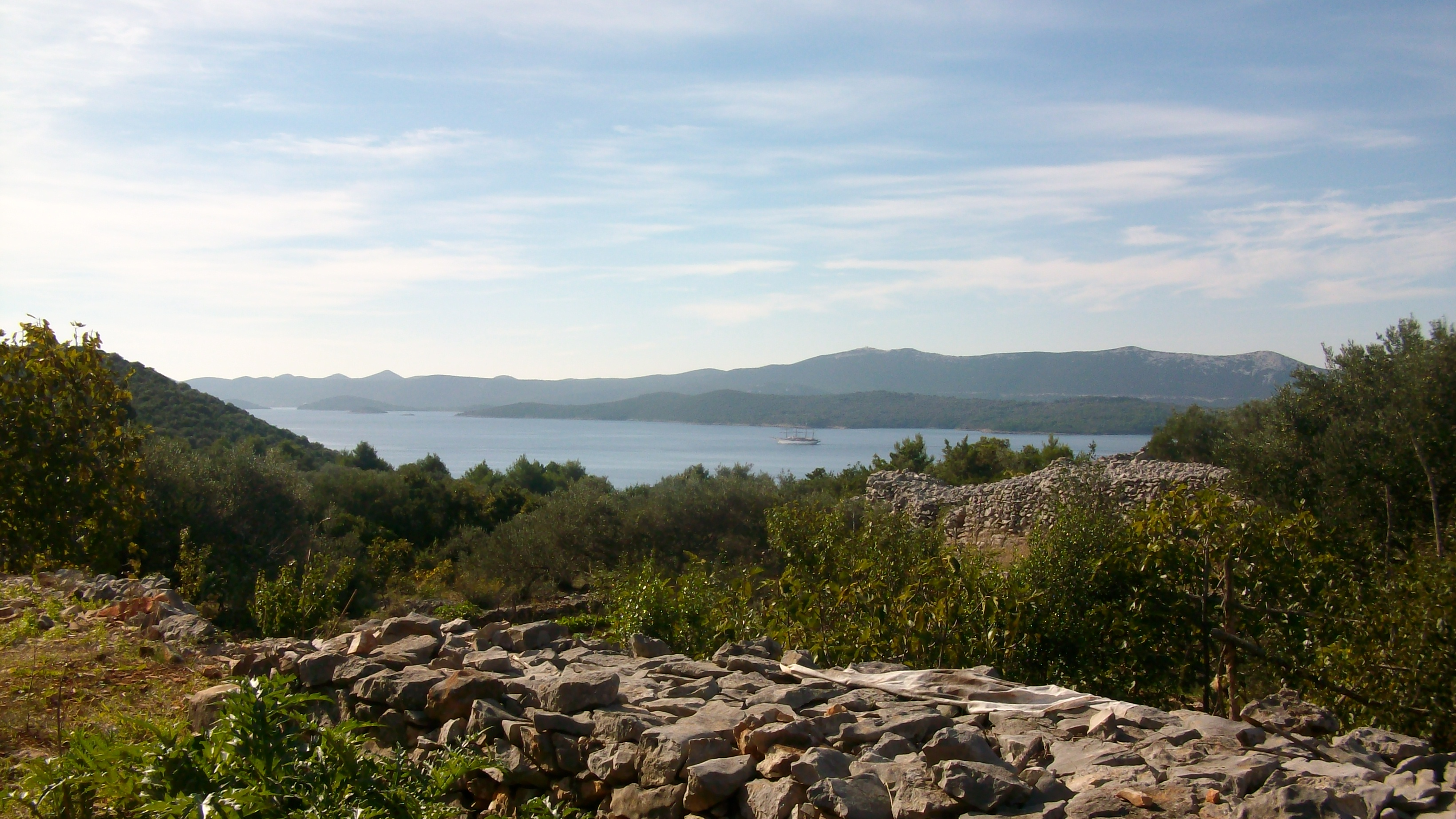 Iž, Croatia. In the Back Dugi Otok. Between Rava